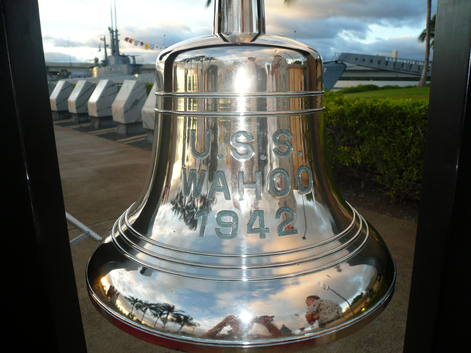 The "Ship's Bell" from USS Wahoo (SS-238). When submarines went out on war patrol, the bell remained on shore in the event the submarine was lost at sea. This photo was taken at the Bowfin Submarine Museum and Park at Pearl Harbor on the event of the ceremony commemorating her loss and subsequent locating.